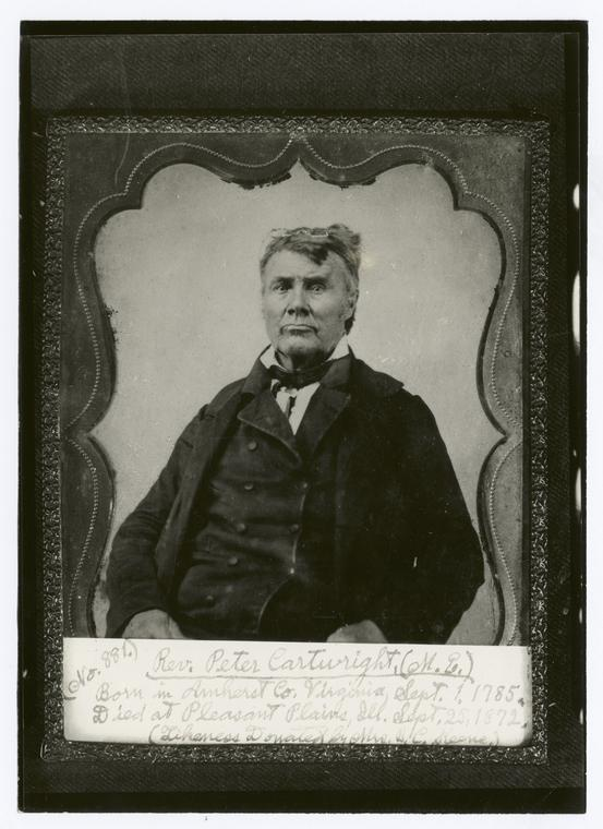 The US-american preacher Peter Cartwright (1785-1872)